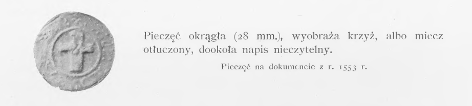 Scan (from the djvu source) of the 94th page of the 1905 book 'Pieczęcie miast dawnej Polski' (Seals of the cities of old Poland) by Wiktor Wittyg (1857 - 1921), showing the seal of the city of Izbica with description (in Polish). The book itself is in the PD (copyrights expired according to Polish law, as established by "Małopolska Digital Library"), over 70 years after author's death. Source: Małopolska Digital Library (